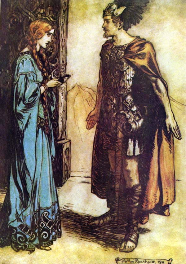 Siegfried hands the drinking-horn back to Gutrune, and gazes at her with sudden passion. One of Arthur Rackham's illustrations to Richard Wagner's The Ring of the Nibelung in en:1910.